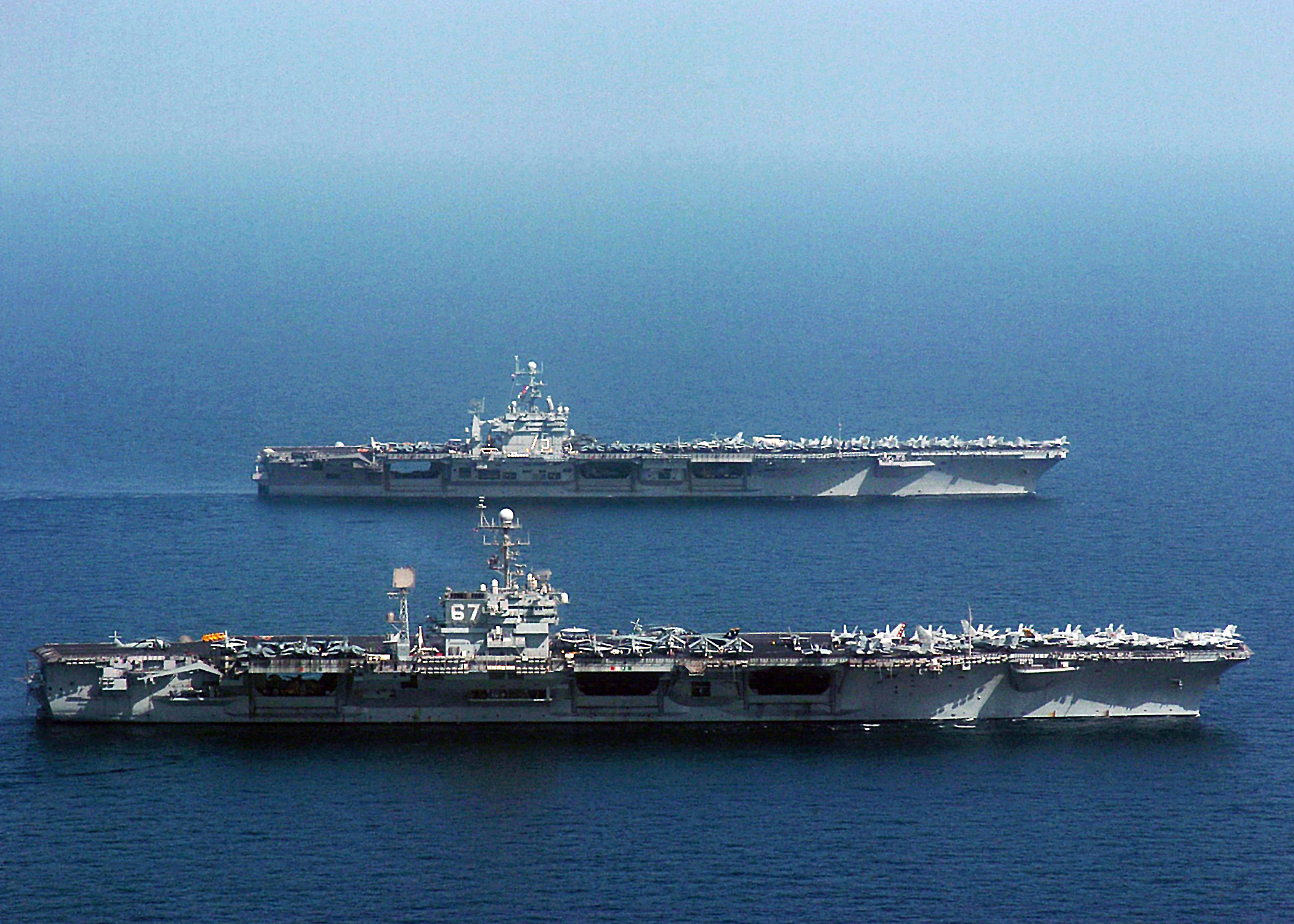 Arabian Gulf (Nov. 20, 2004) – The conventional aircraft carrier USS John F. Kennedy (CV 67) is relieved by the Nimitz-class aircraft carrier USS Harry S. Truman (CVN 75). Truman’s Carrier Strike Group Ten (CSG-10) and her embarked Carrier Airwing Three (CVW-3) are currently on a scheduled deployment in support of the Global War on Terrorism. U.S. Navy photo by Photographer's Mate Airman Ryan O'Connor (RELEASED)